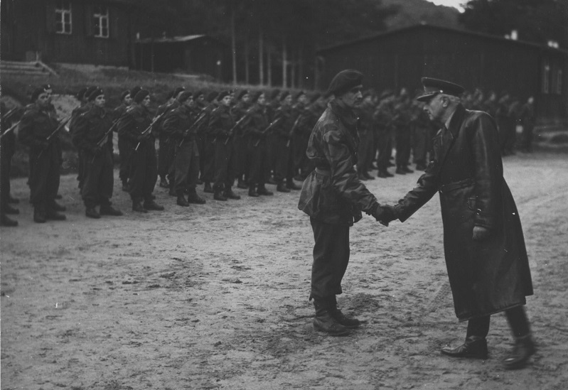 Czechoslovakian soldiers with general Svoboda